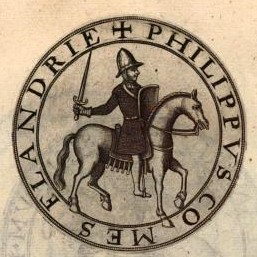 Philip of Alsace